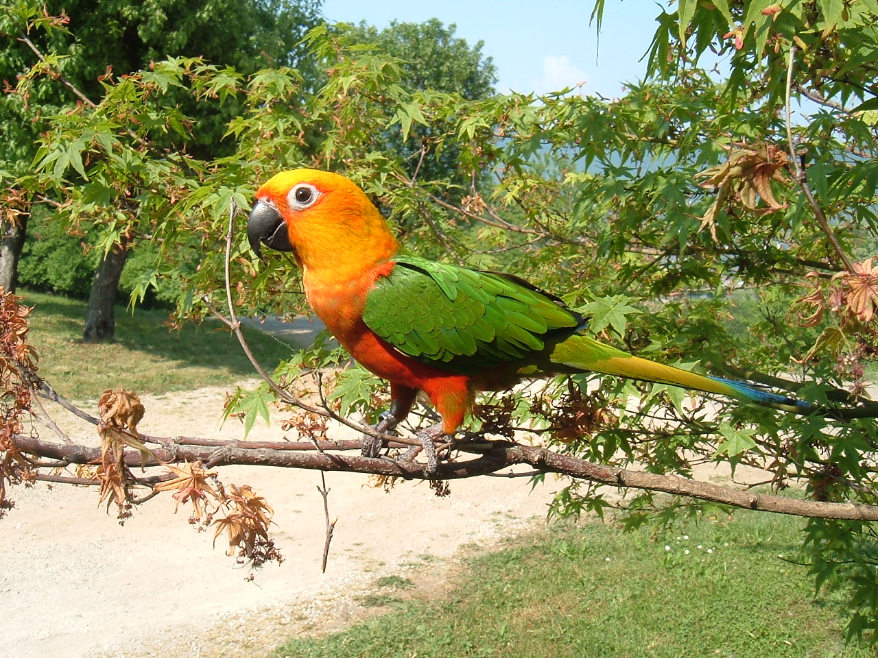 Jenday Conure or Jandaya Parakeet in a tree.